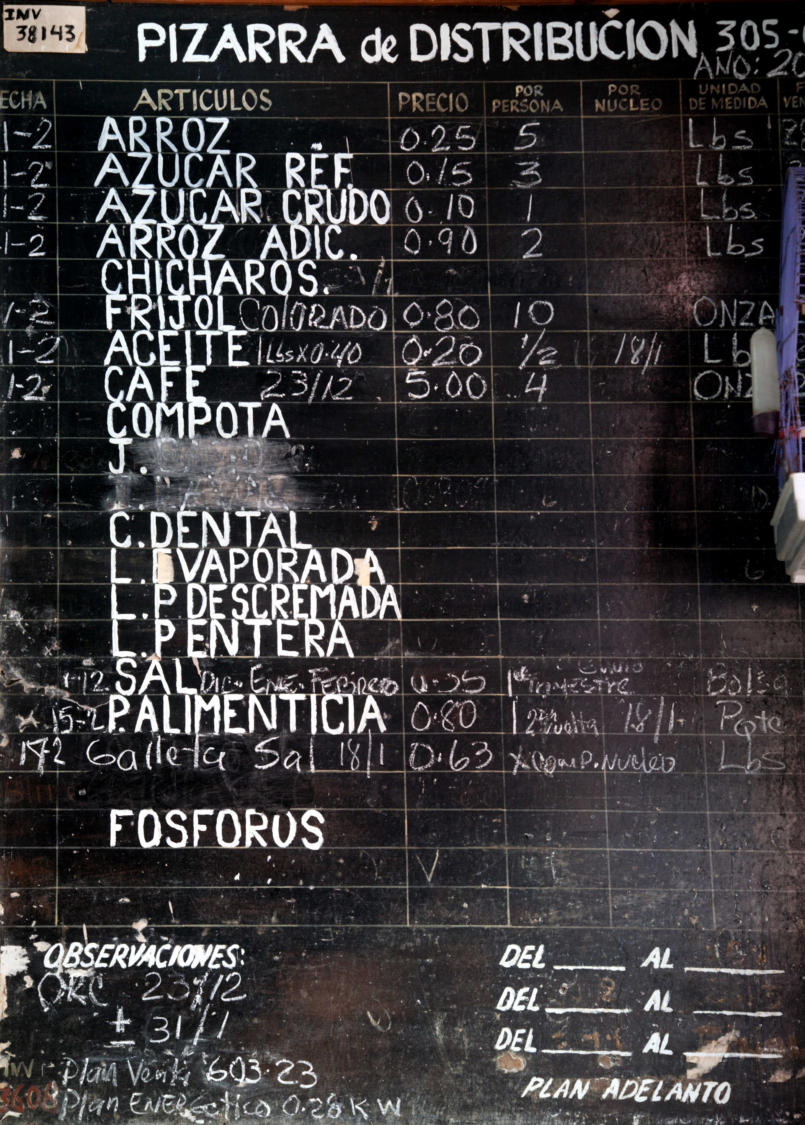 Cuba has two parallel currencies: National Pesos and Convertibles to Dollars (CUCs). National pesos only buy goods in bulk , limited with a "Libreta" to a fixed quantity each month. This chart shows the price of the 10 or 20 staples available in a "Bodega" depending on the week day. Havana (La Habana), Cuba